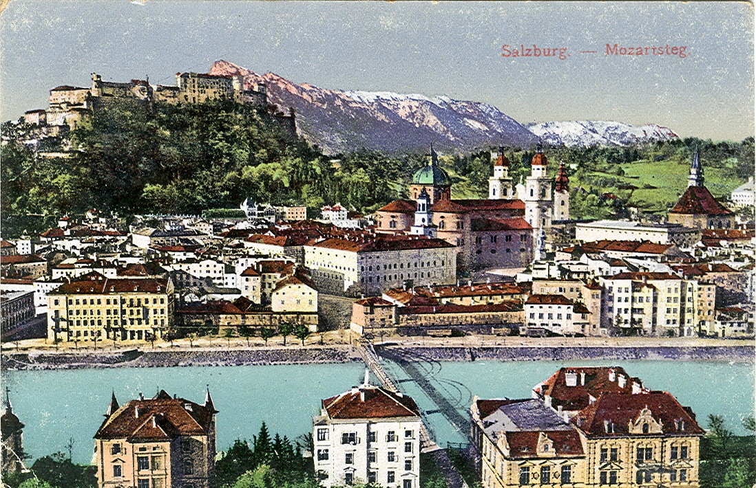 Postcard, undated ( ca.1914 ). Title: "Salzburg - Mozart bridge".